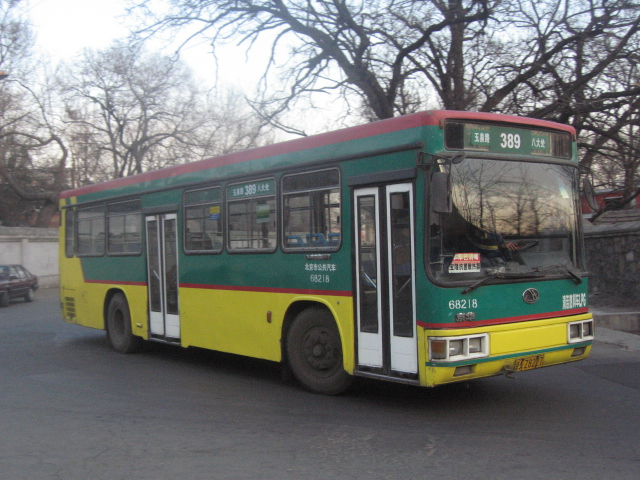 Wow, a BK6111LPG! These LPG buses were introduced in 1999... Wait a minute, its license plate was AZ8227? Similar to that Leyland Atlantean PDR1/1 of CMB, with Weymann M9389 bodywork, chassis number 592106.